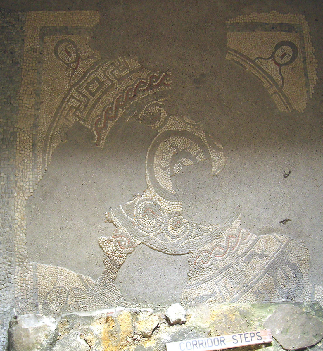 Roman Mosaic, found in the villa at Bignor, England. It shows the four seasons and a Medusa head in the midde